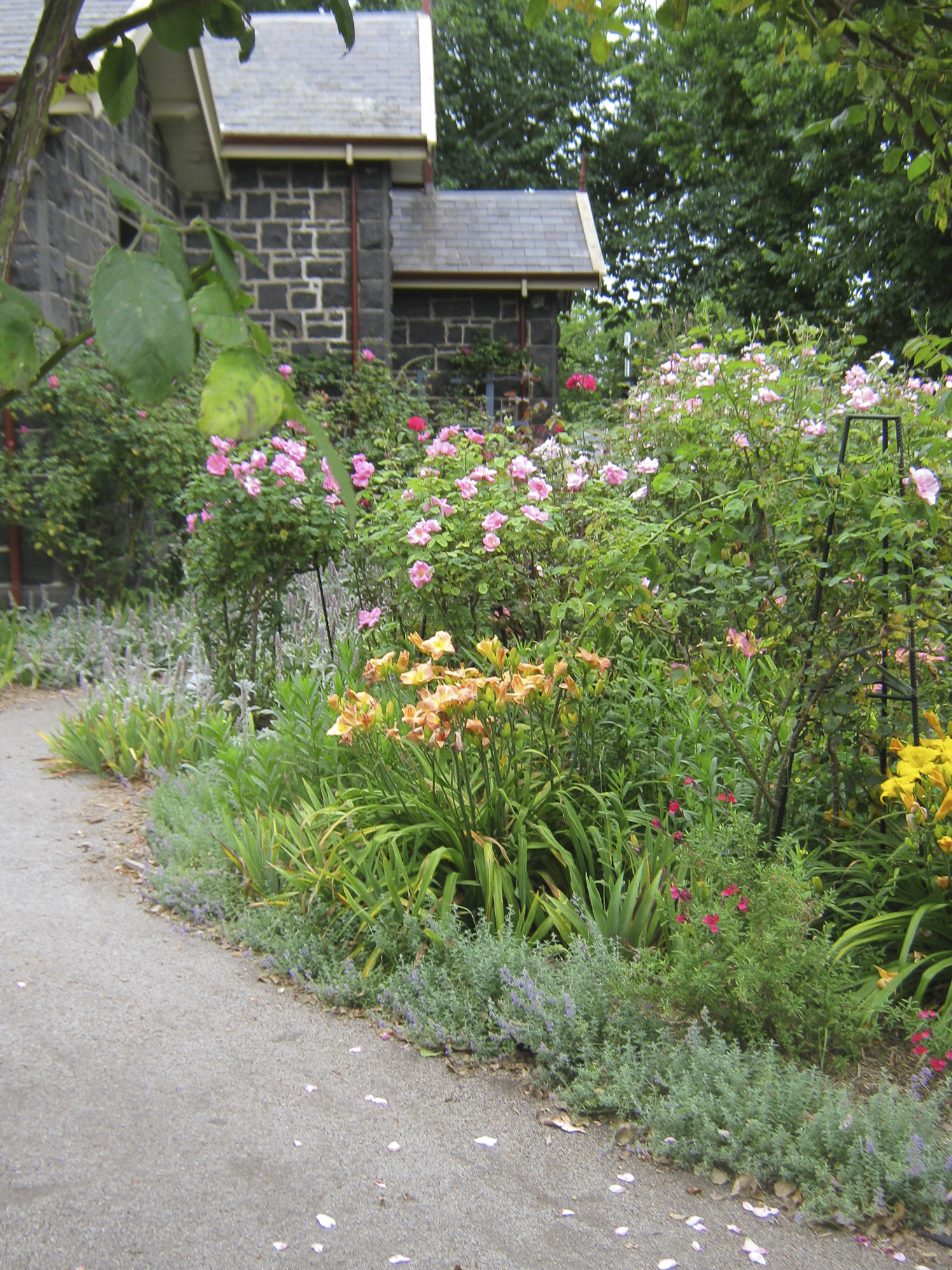 Alister Clark Memorial Rose Garden, view towards the old shire hall and the front gate.